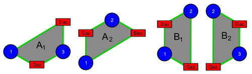 Use of Jordan curve theorem in order to solve the water gaz electricity enigma (5).